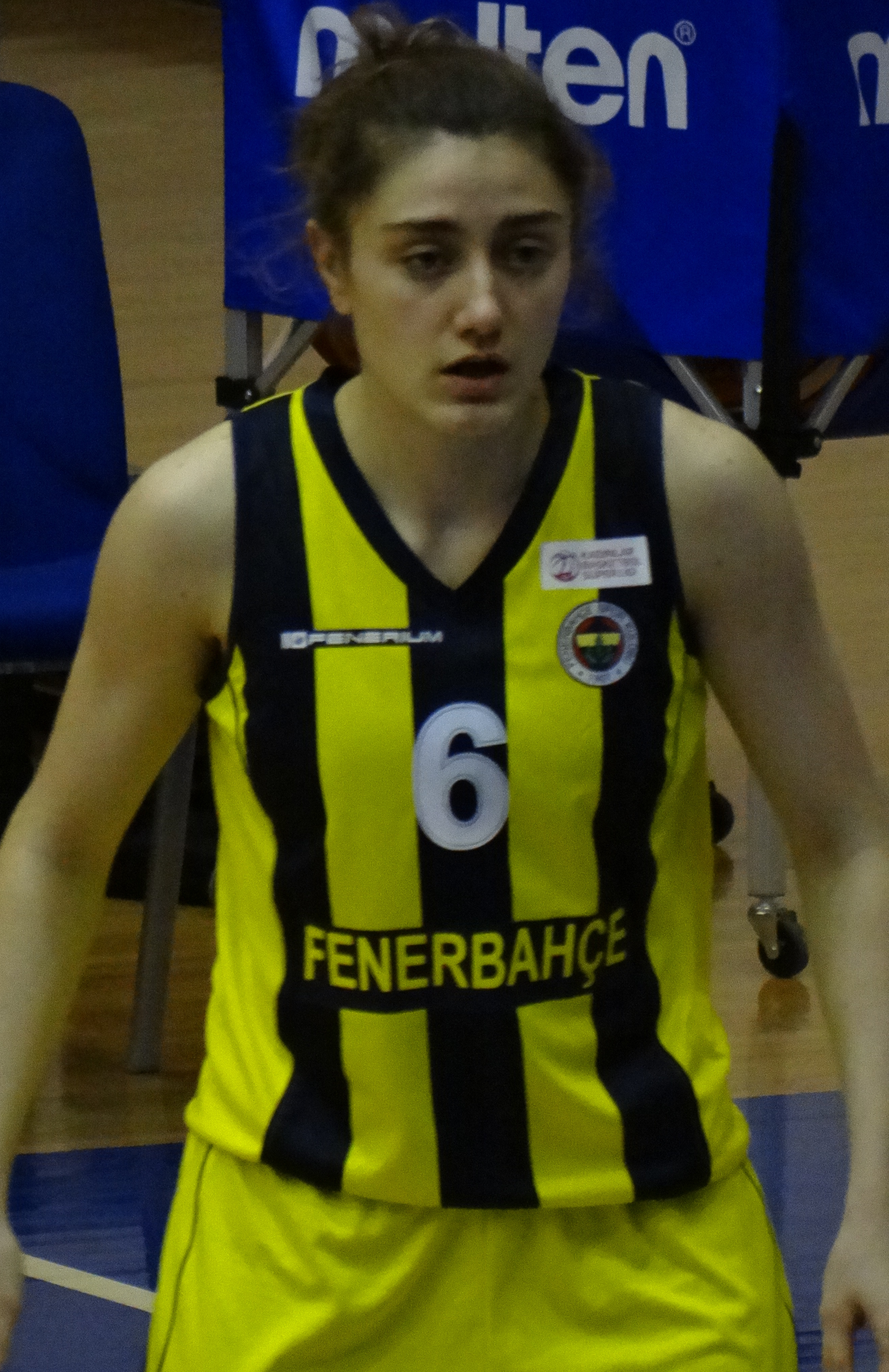 Merve Arı 6 Fenerbahçe women's basketball TWBL 20181216